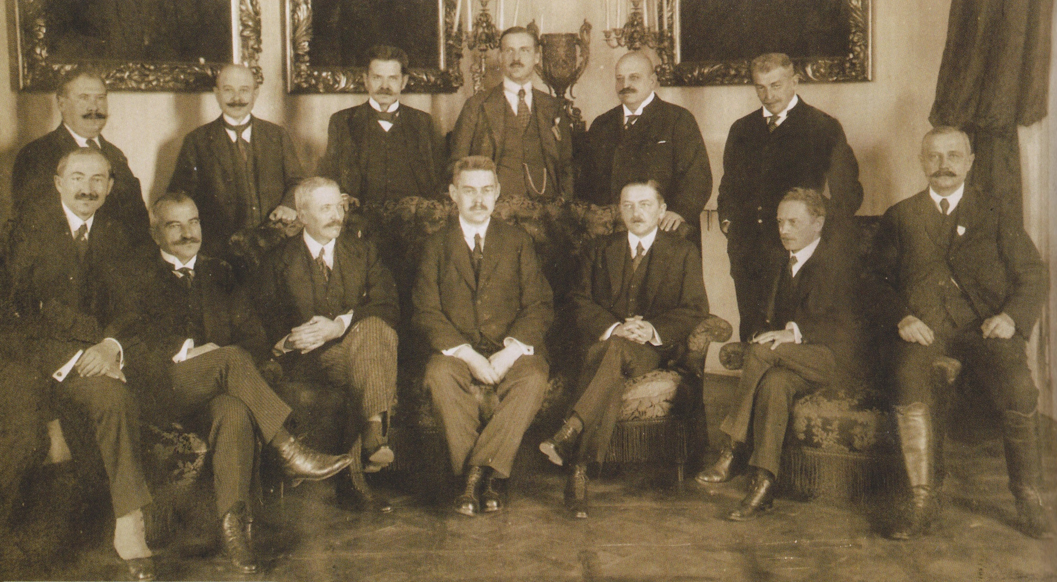 The members of Huszár Government